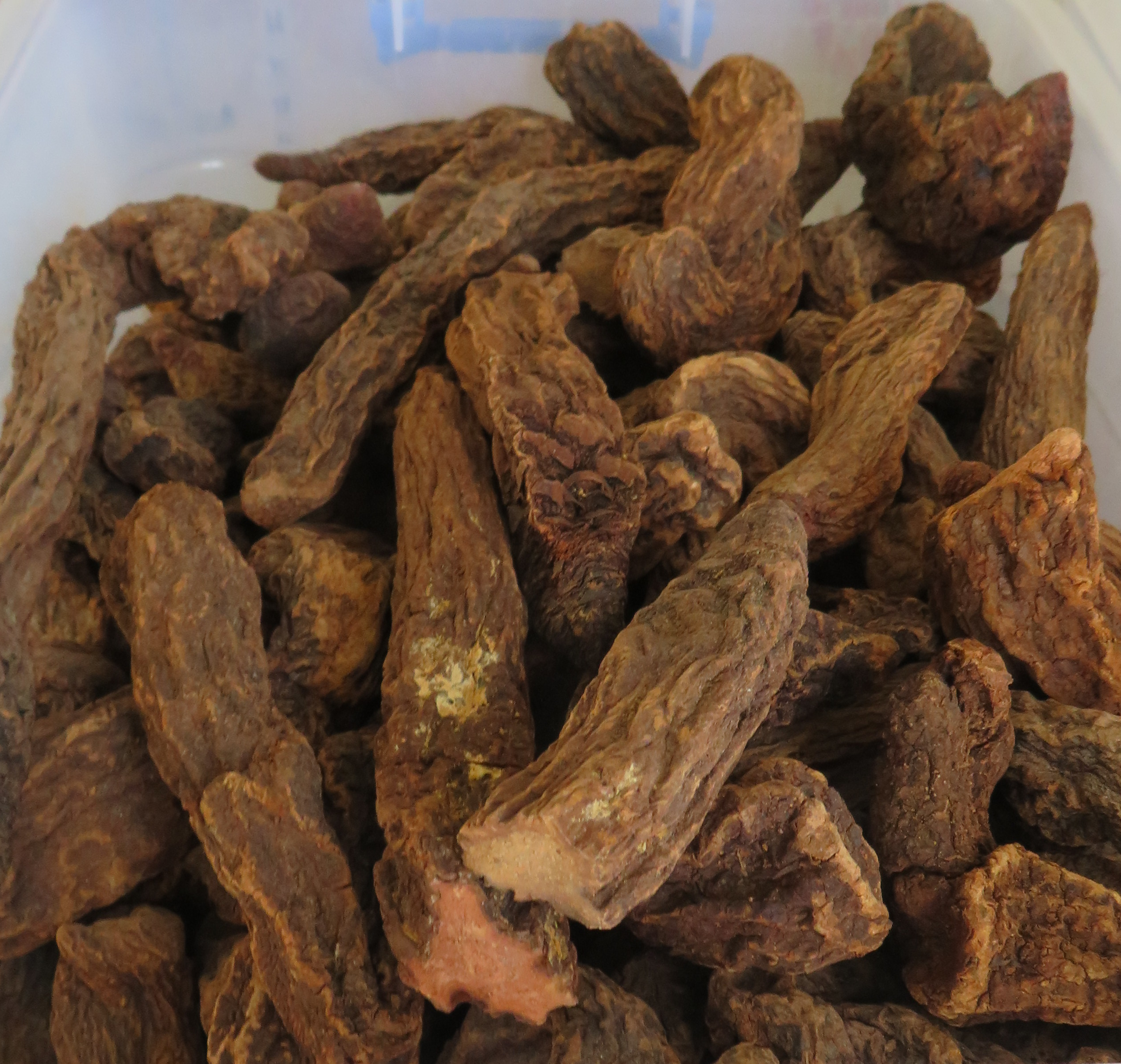 Cynomorium coccineum var. songaricum (suoyang) at Suoyang City